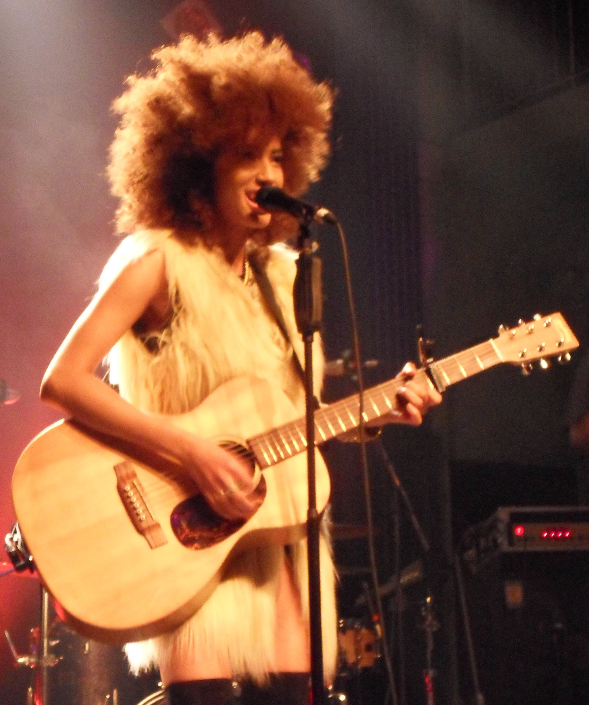 Andy Allo, singer from Cameroon, on December 9, 2013 in Hamburg, Germany.